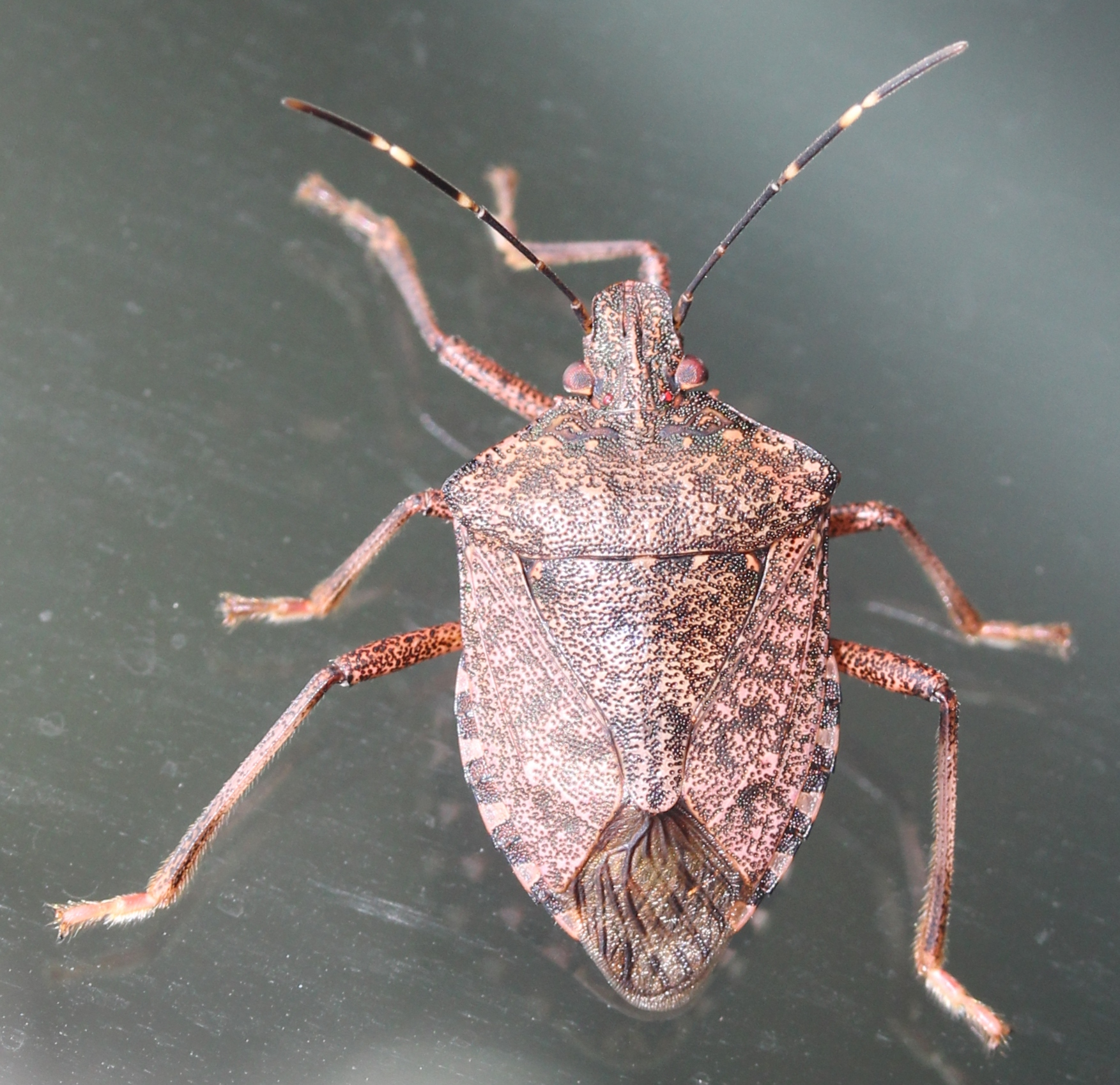 Halyomorpha halys in Ibigawa Town, Gifu Prefecture, Japan.